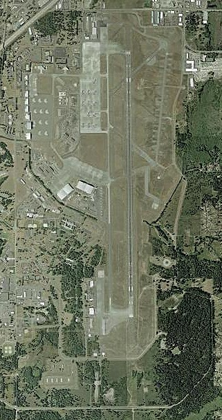 USGS orthophoto of McChord Air Force Base (Washington State)